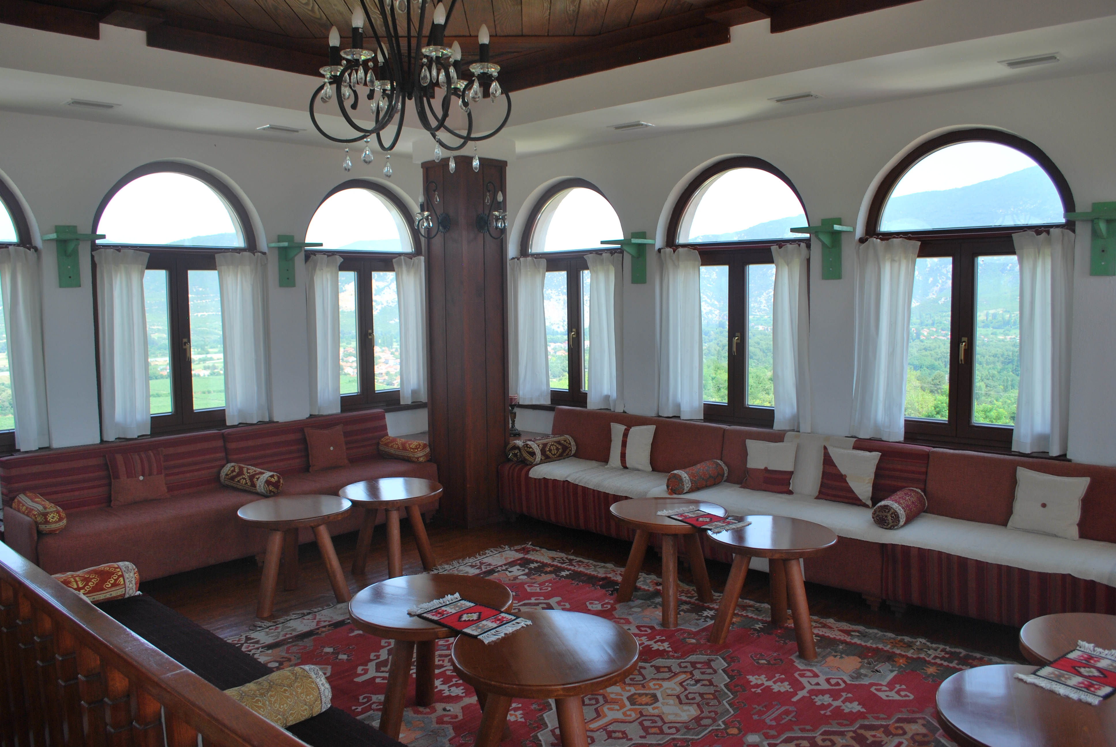 Popova Kula - Winery, Restaurant and Hotel in Demir Kapija, Macedonia